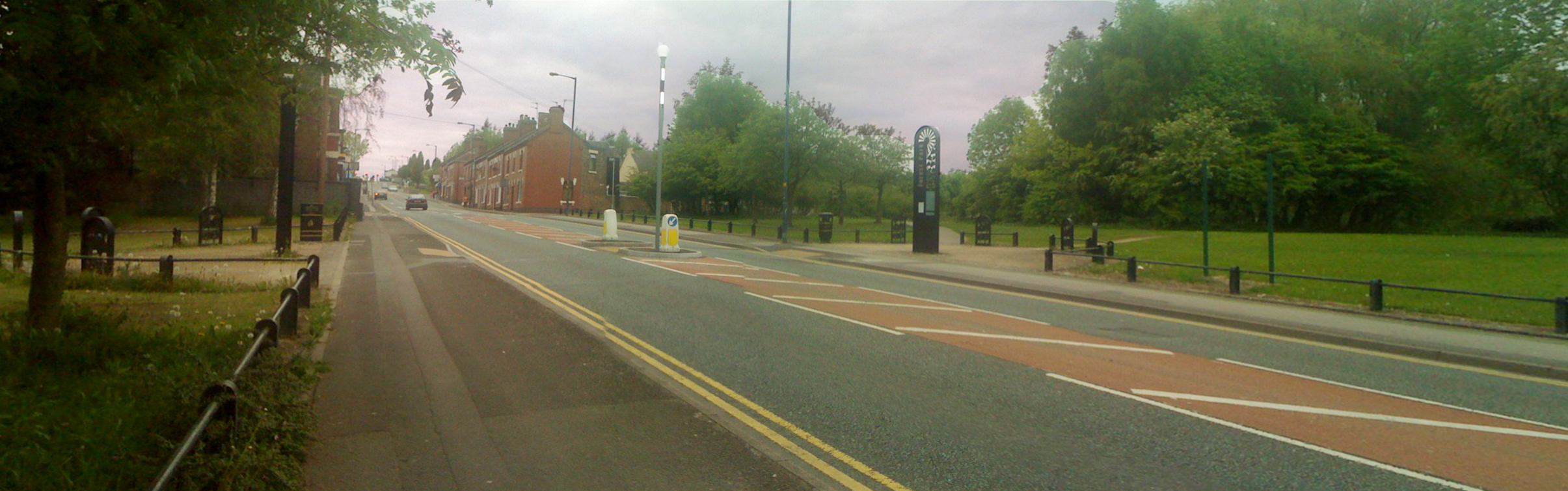 Picture of the current Waterloo Road, site of the crossing by the Waterloo Road (NSR) station on the Potteries Loop Line.